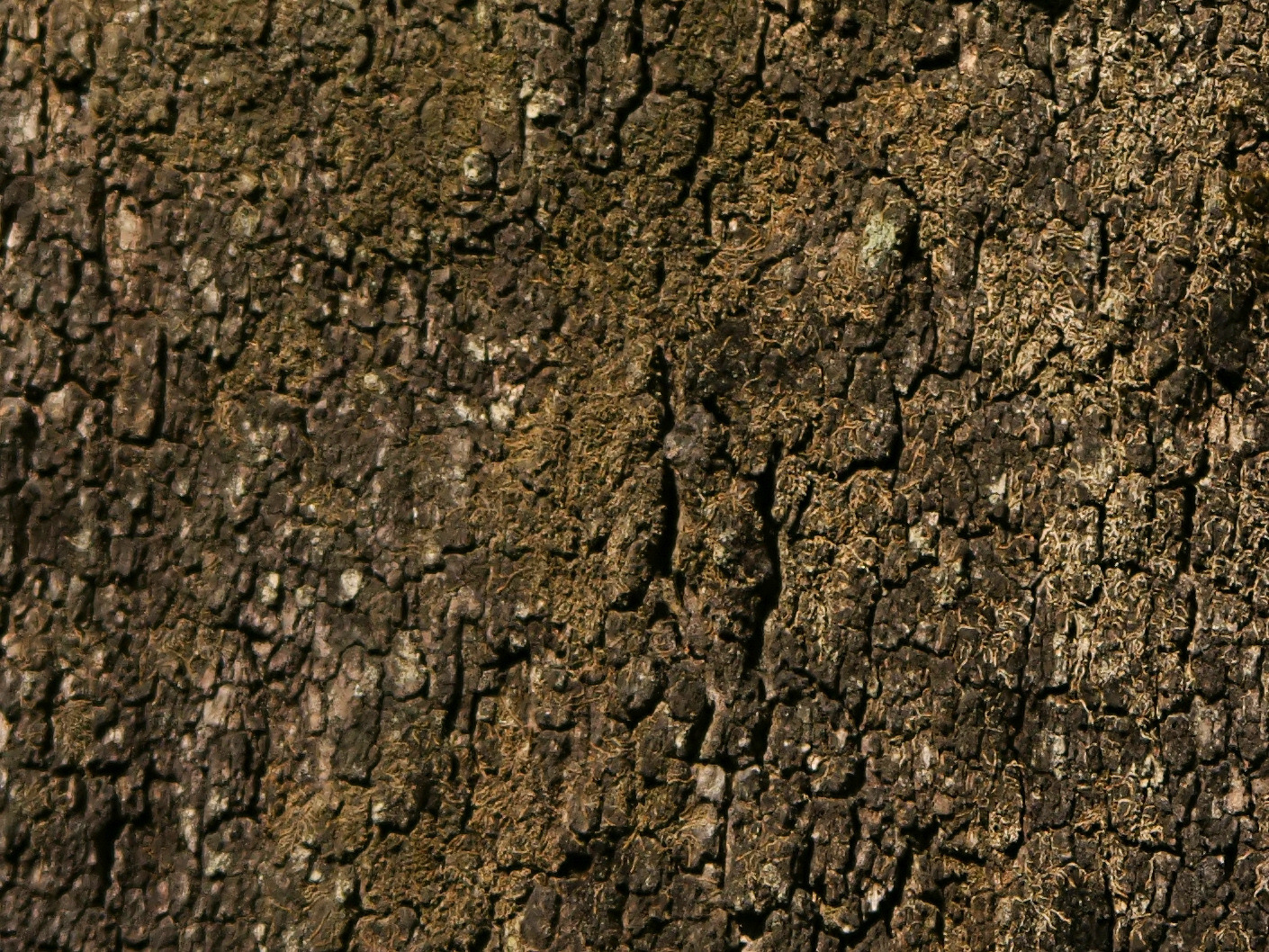 Bark of a Mupundu tree close to the Kafue River near Kitwe, Zambia